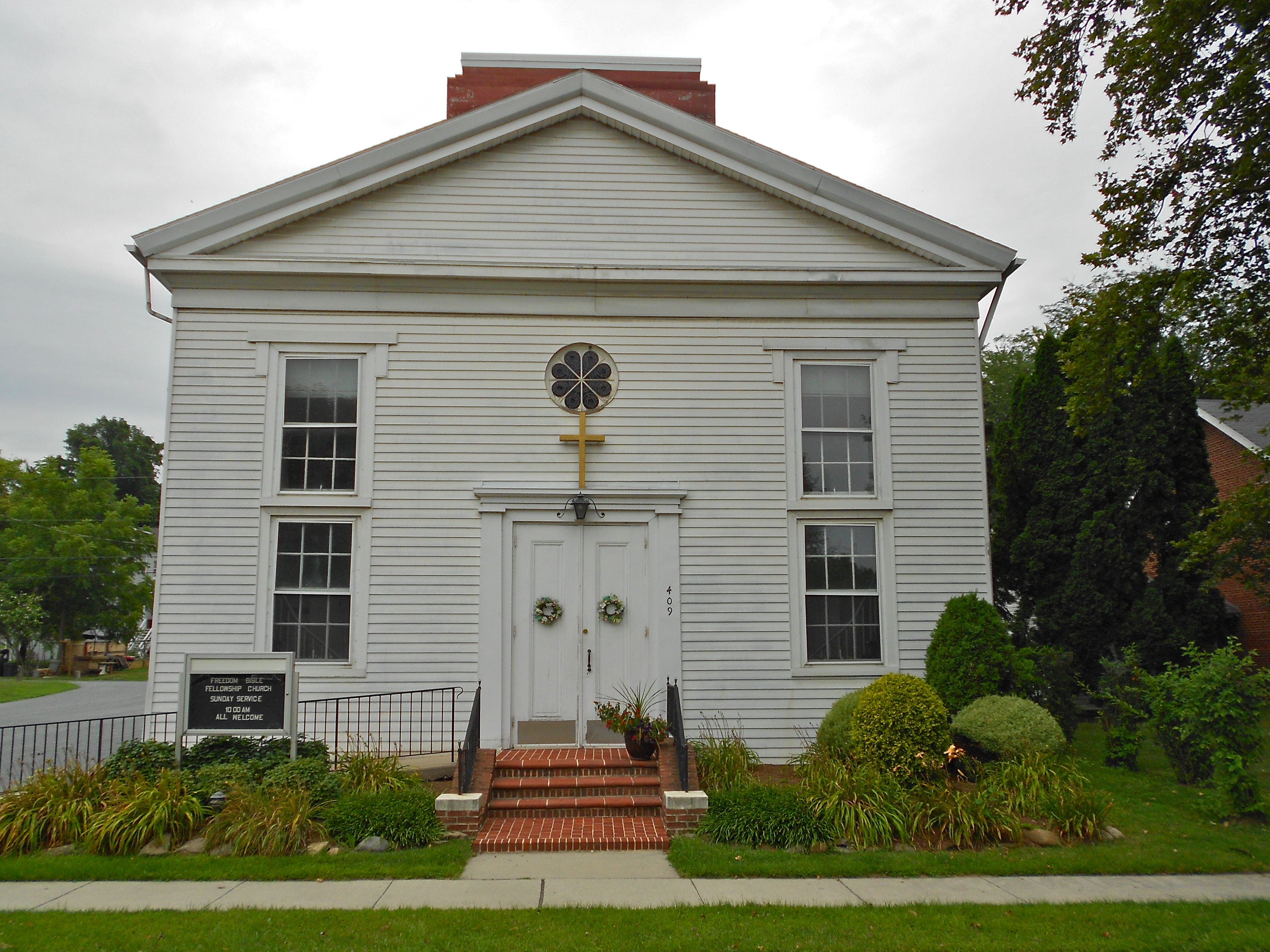 Freedom Bible Church in Dauphin, Pennsylvania, north of Harrisburg and in Dauphin County. Note the missing steeple.